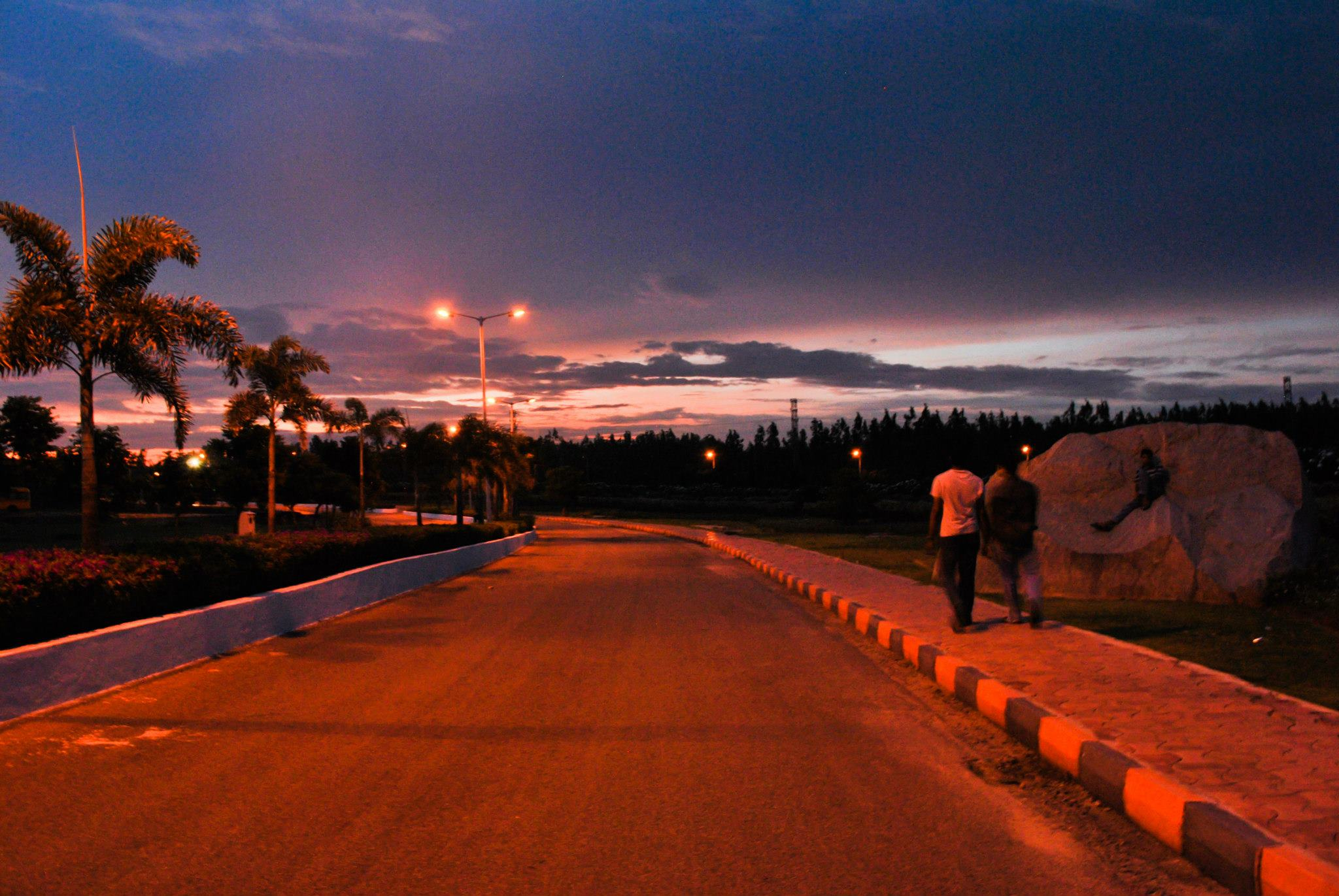 Marine Drive (BPHC) in the evening